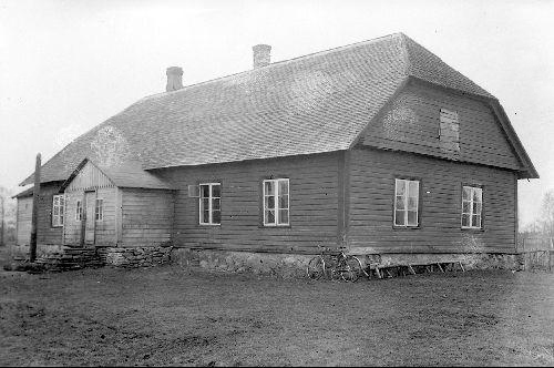 School in Randvere village, Estonia, 1920